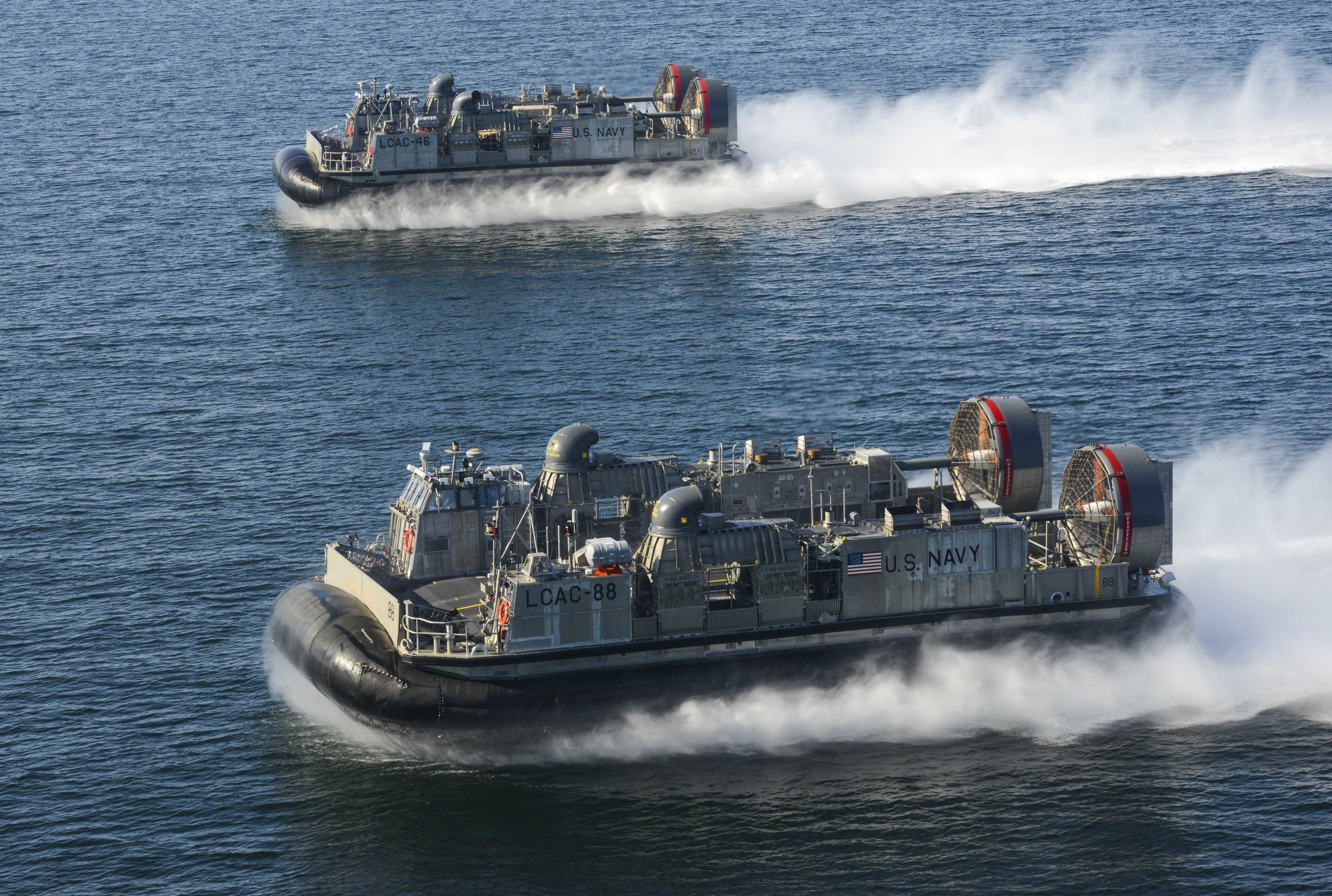 U.S. Navy landing craft air cushion (LCAC) vehicles perform maneuvers during Baltic Operations (BALTOPS) 2015. BALTOPS is an annual multinational exercise designed to enhance flexibility and interoperability, as well as demonstrate resolve among allied and partner forces to defend the Baltic region.